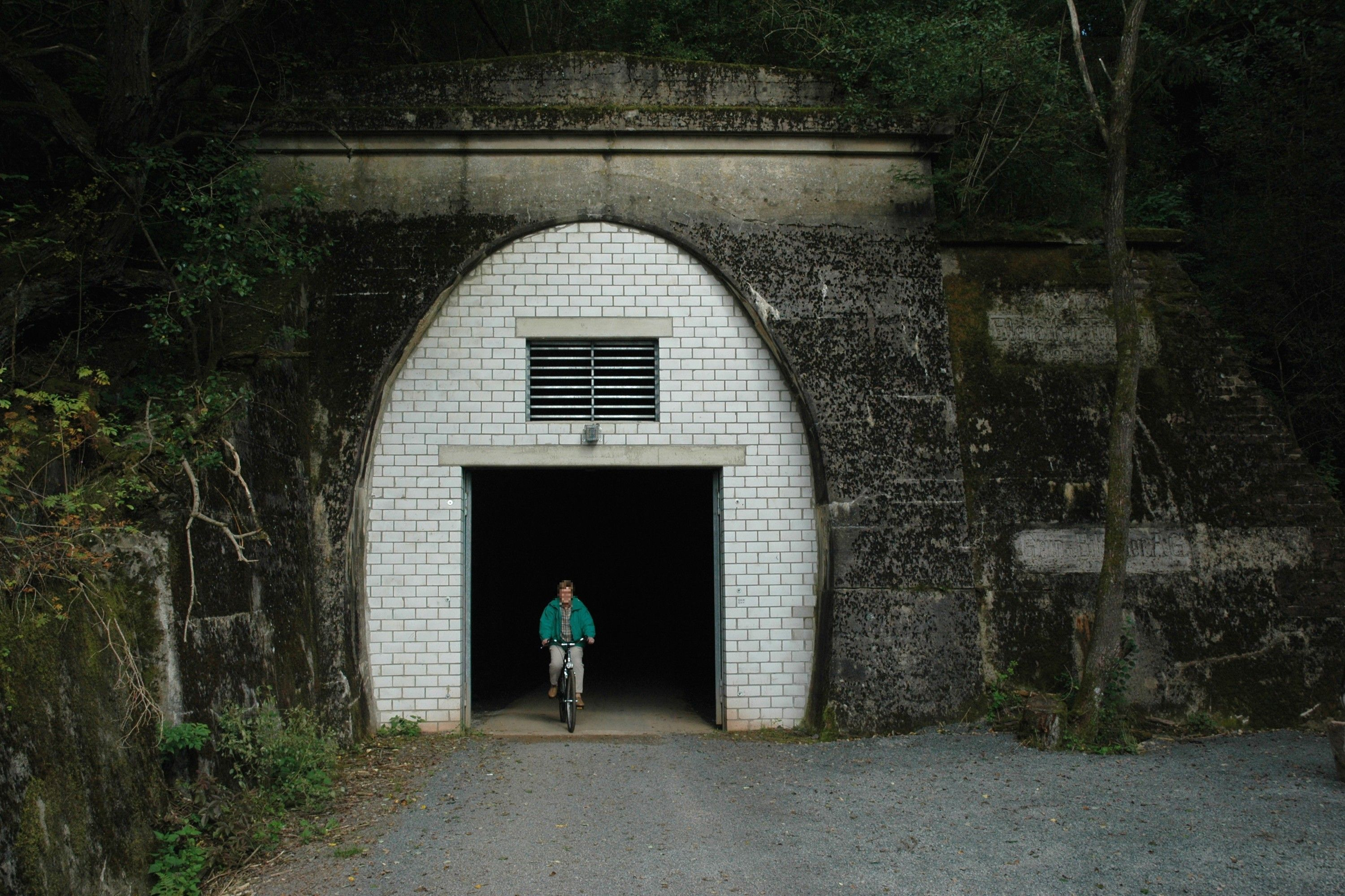 Western Portal of Bleialfer Tunnel